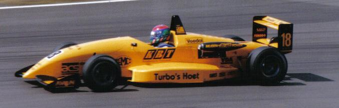 Kurt Mollekens driving for Alan Docking Racing at Silverstone during the 1995 British Formula Three Championship season.